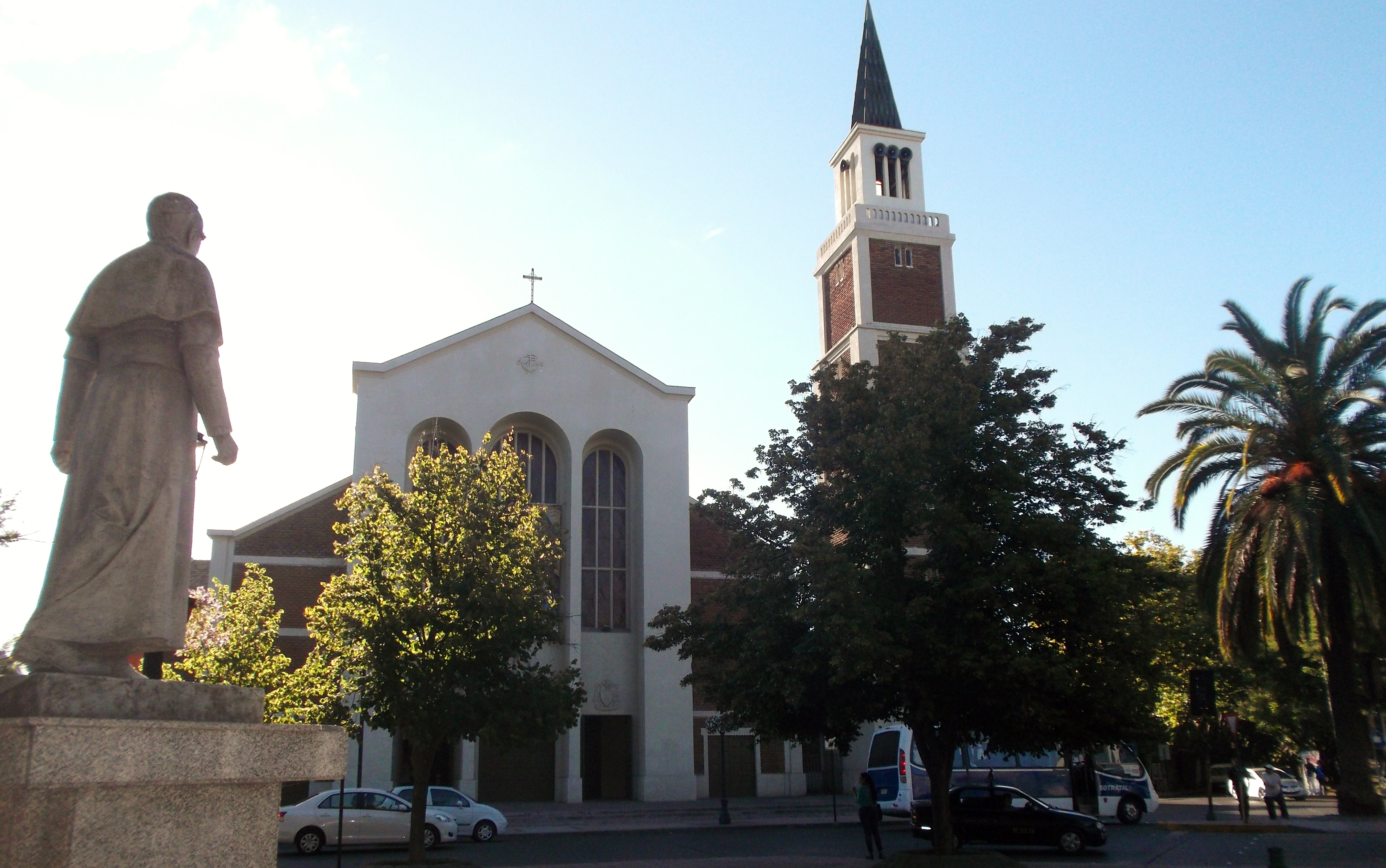 Talca Main Square, University years